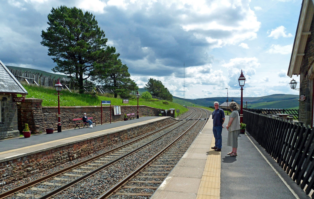 Dent railway station, North Yorkshire, looking south with station buildings (right) and level crossing (centre).